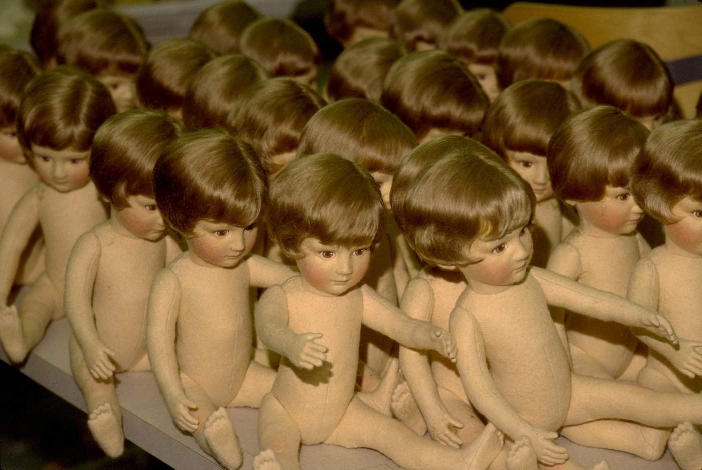 Production of Christoper Robin doll by R. John Wright. Photo taken in Vermont Studio during production.